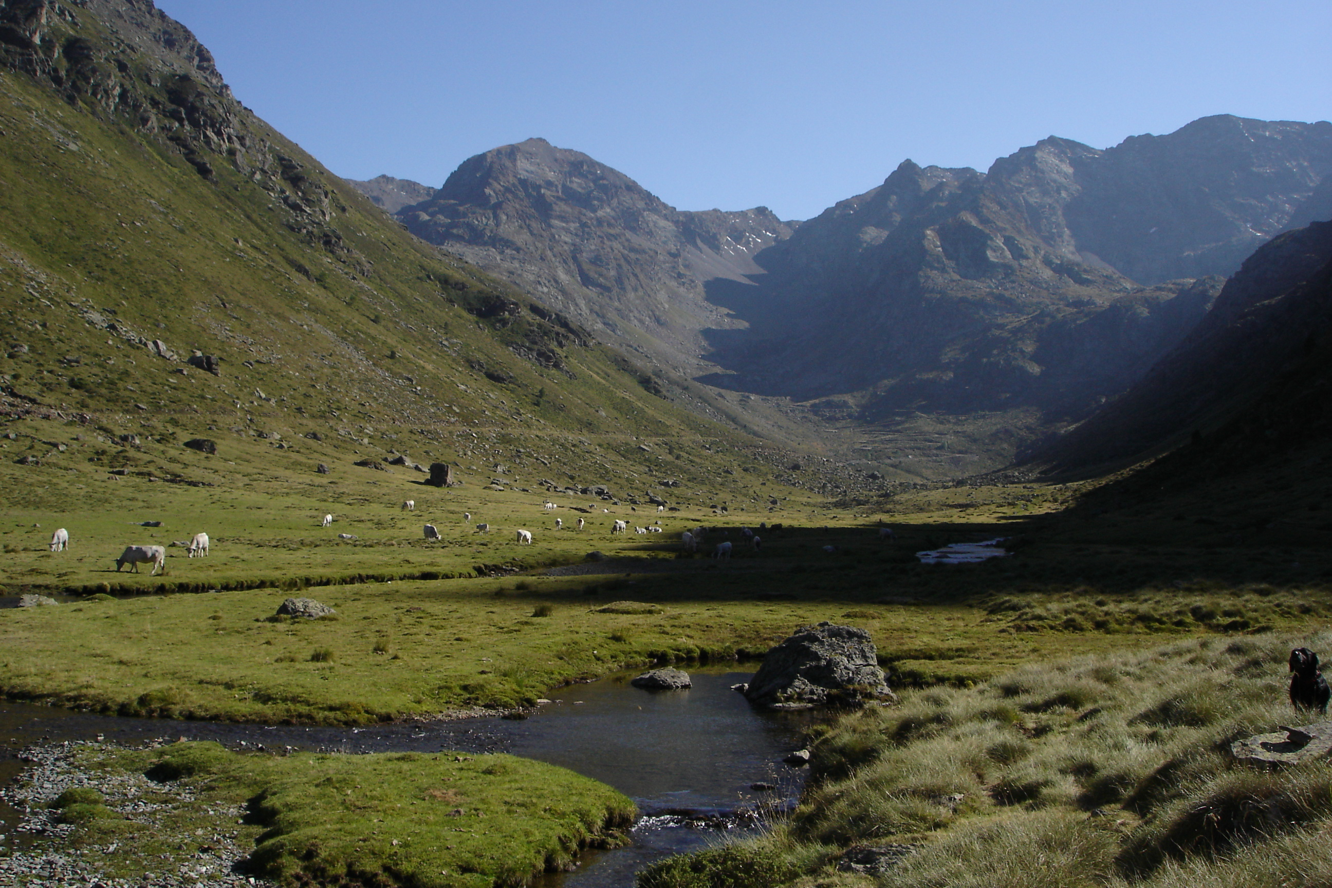 Col de Bareytes and the ridge of Pic de Médécourbe in the background, also showing the Labinas waterfall and the Soulcem valley. Pic de Médécourbe is a tripoint (boundary) of Andorra, Spain, and France.